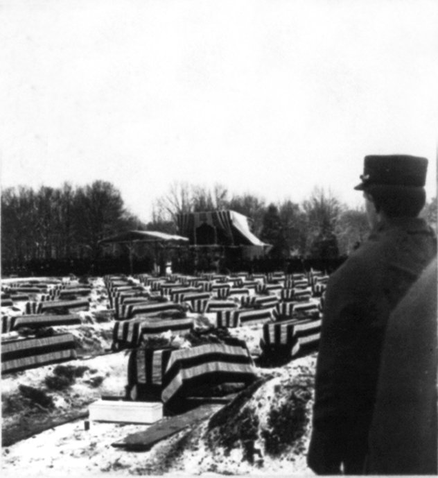 Burial of the dead of the USS Maine at Arlington National Cemetery in Arlington County, Virginia, in the United States on December 28, 1899.